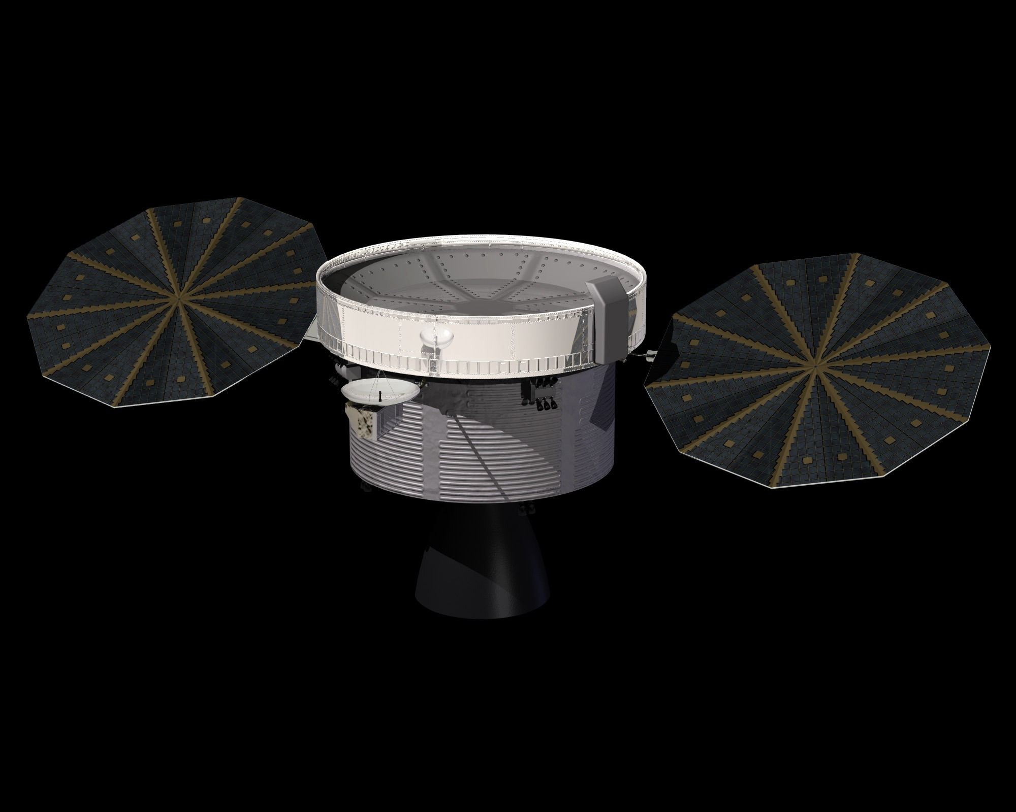 orion sevice module (SM)